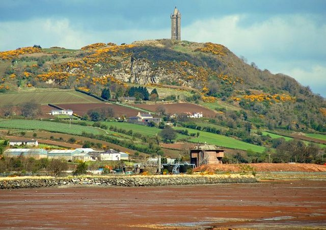 Scrabo Tower near Newtownards (3). Scrabo Tower 347929 is a dominant feature in an otherwise fairly flat landscape. The view is across Strangford Lough (at close to low water) from the causeway to Rough Island 775687. Killynether Wood 243433 lies below the Tower to the left.